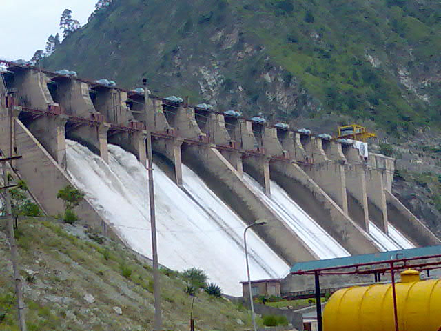 Spillway Salal Power Station, Reasi district, Jammu